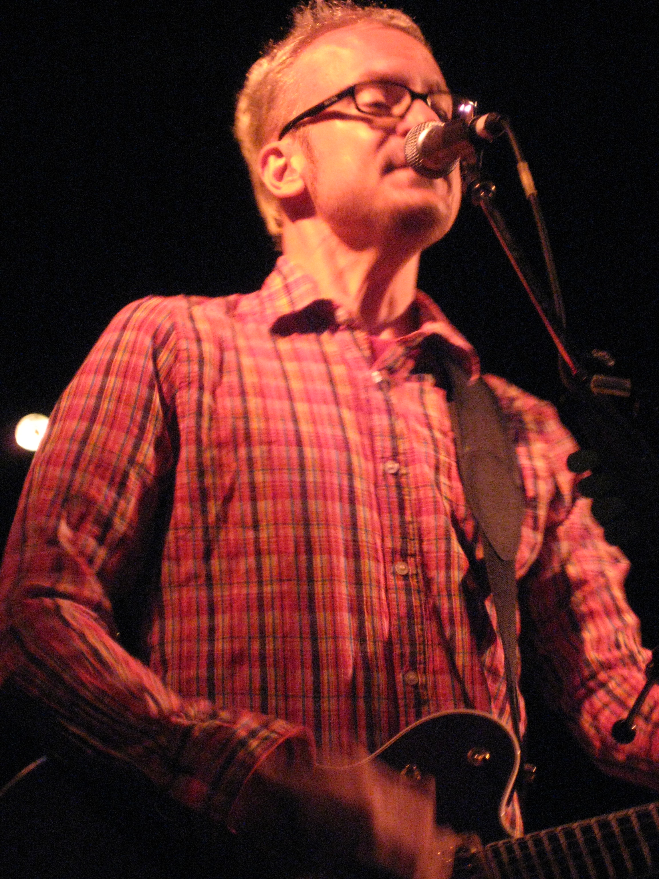 Chris Collingwood performing with Fountains of Wayne in concert in Toronto